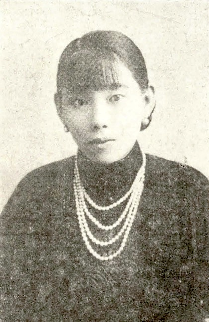 Ng Kim-chhoan 黃金川